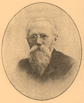 Illustration from Brockhaus and Efron Encyclopedic Dictionary (1890—1907)